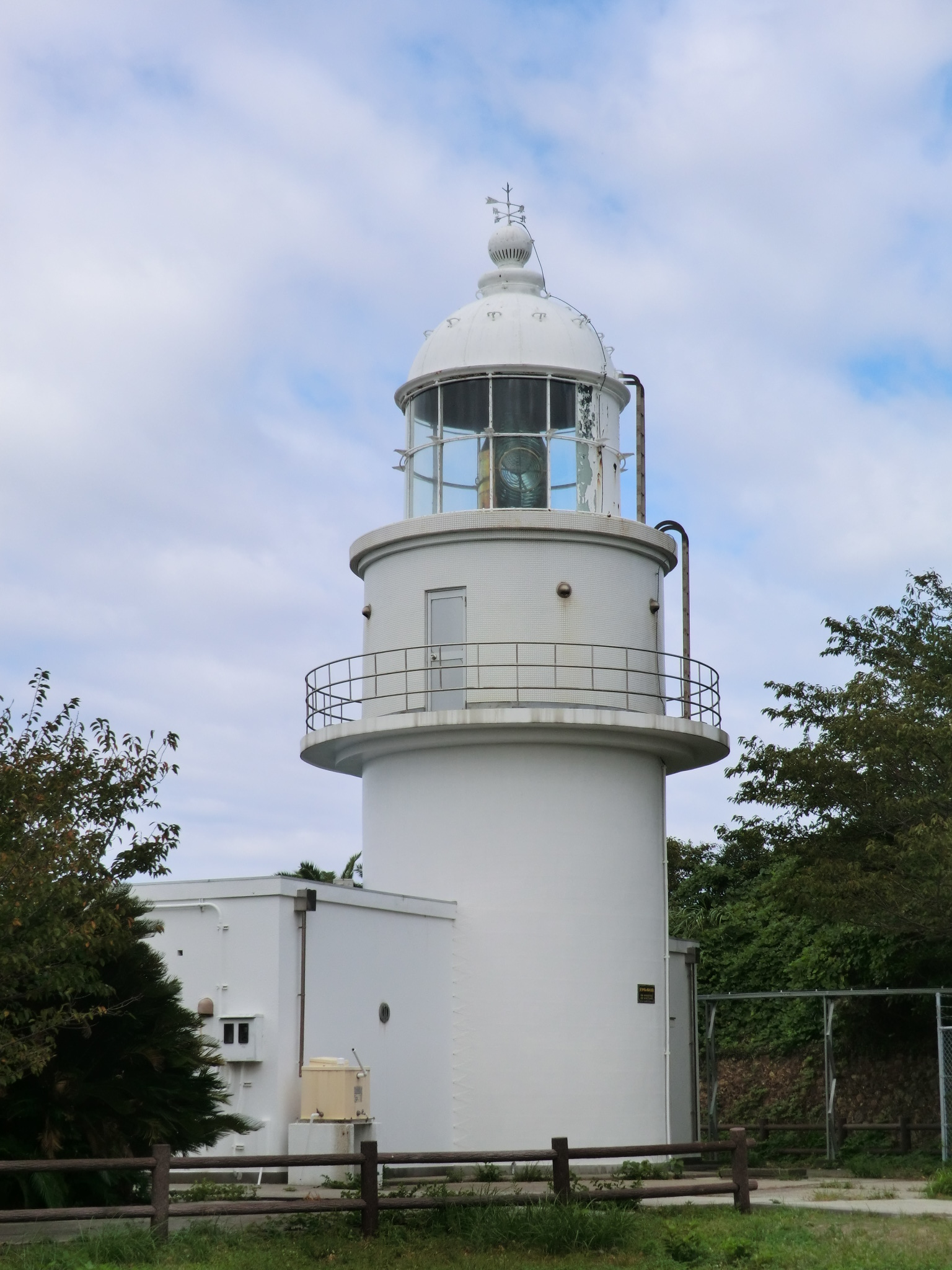 Kiihinomisaki lighthouse, Hidaka town, Hidaka-gun, Wakayama pref, Japan